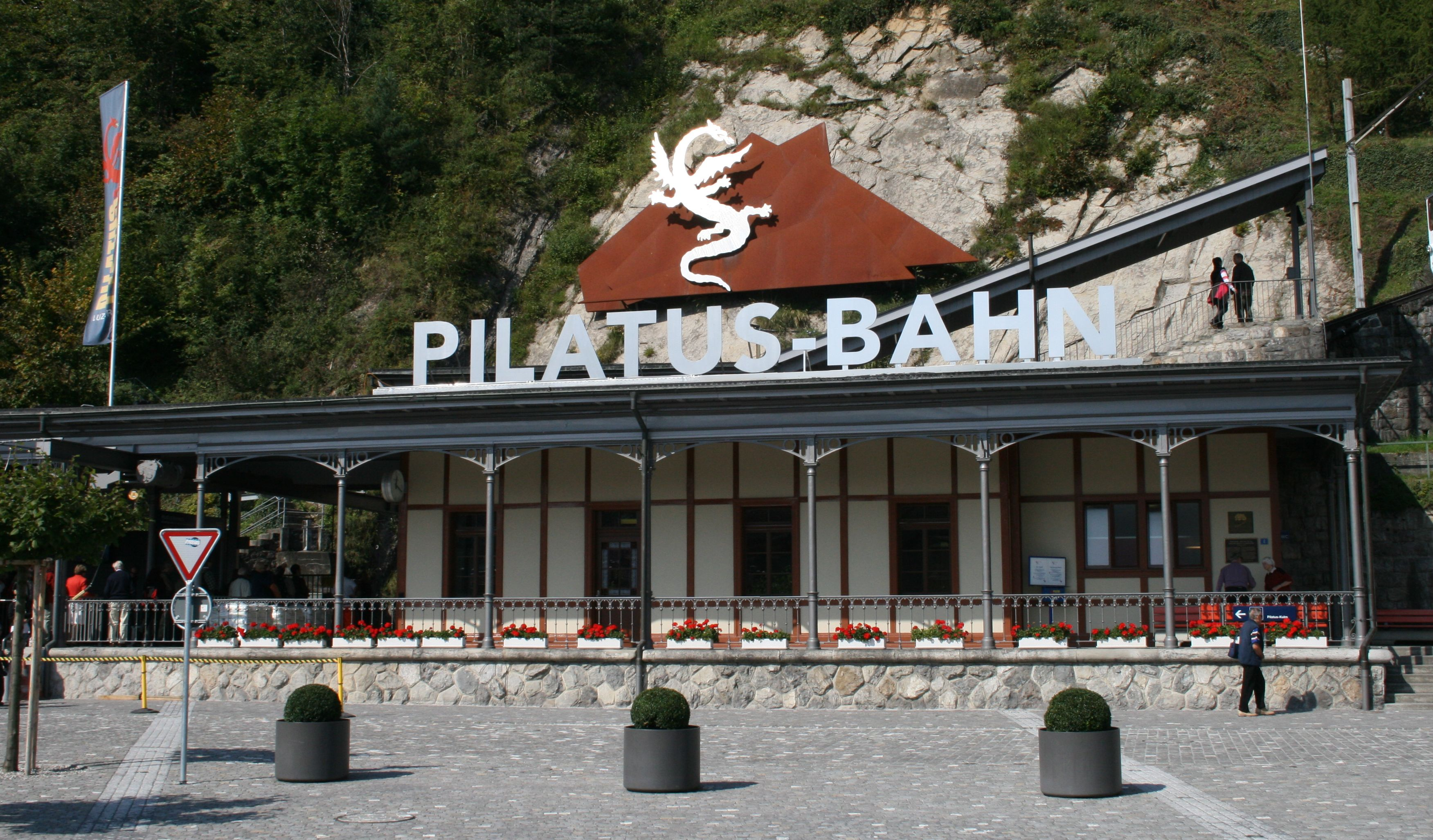 valley station of the Pilatusbahn in Alpnachstad (Canton Obwalden, Switzerland)